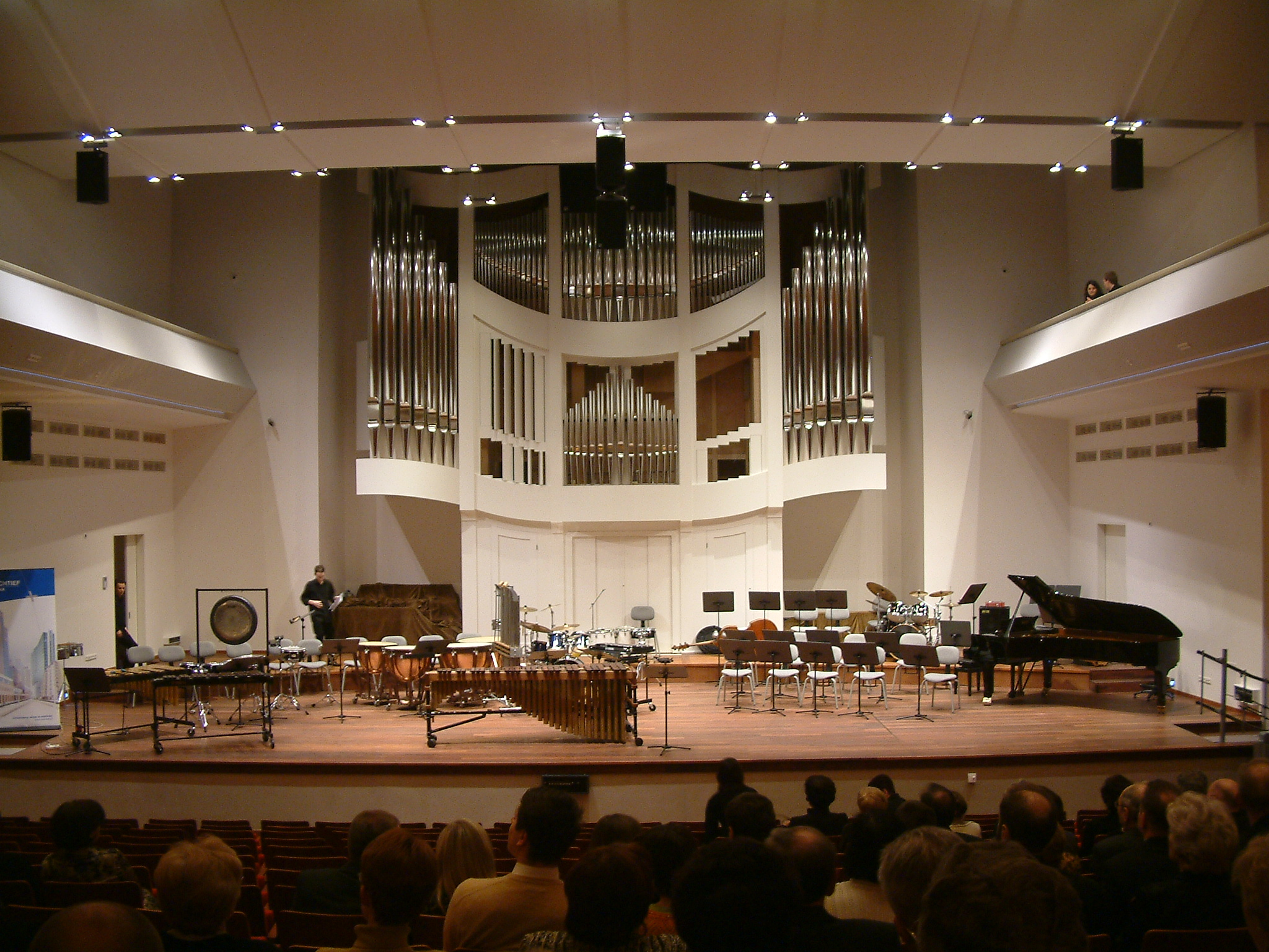 Academy of Music in Poznań, Aula Nova